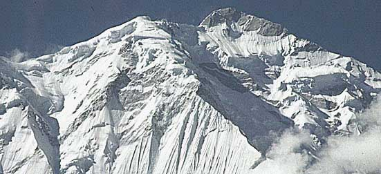 Rakaposhi, a mountain in the Karakoram region of the Pakistani Himalaya.